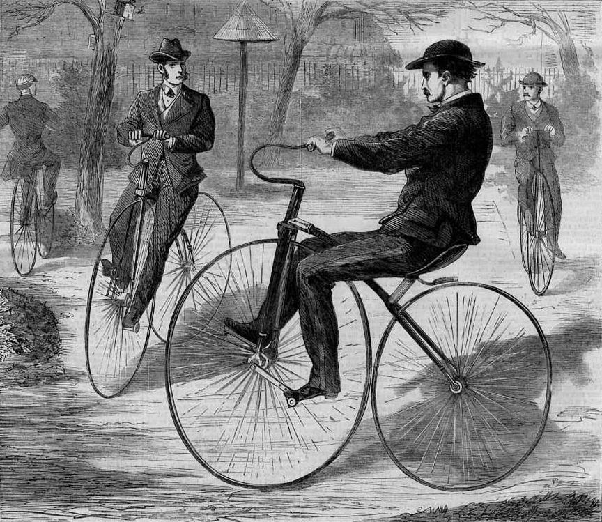 The American Velocipede, a wood engraving sketched by Theodore R. Davis and published in Harper's Weekly, December 19, 1868.